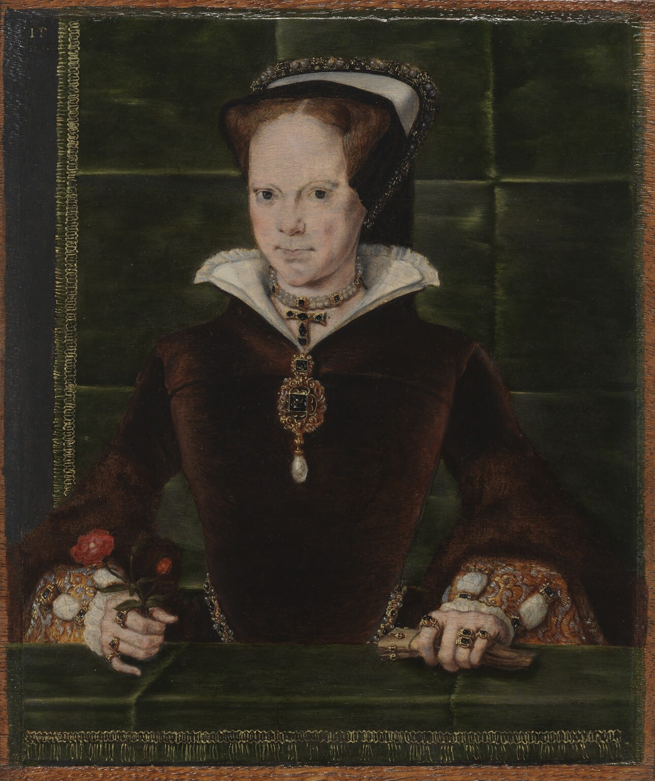 Painting of Mary I, Queen of England and Ireland. She is wearing a pendant with a large pearl, a gift from king Philip II of Spain on the occasion of their marriage in 1554. The pearl is named 'La Peregrina' (the Wanderer) and was last owned by Elizabeth Taylor. When Taylor and her husband Richard Burton learned the National Portrait Gallery did not posess a portrait of Mary I yet, they assisted in the purchase of this painting.